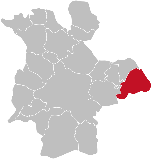 Location of the district Feuersbach within Siegen, Germany. Red/Grey colors match the color scheme of Germany maps and information boxes in German Wikipedia. District is highlighted in red.